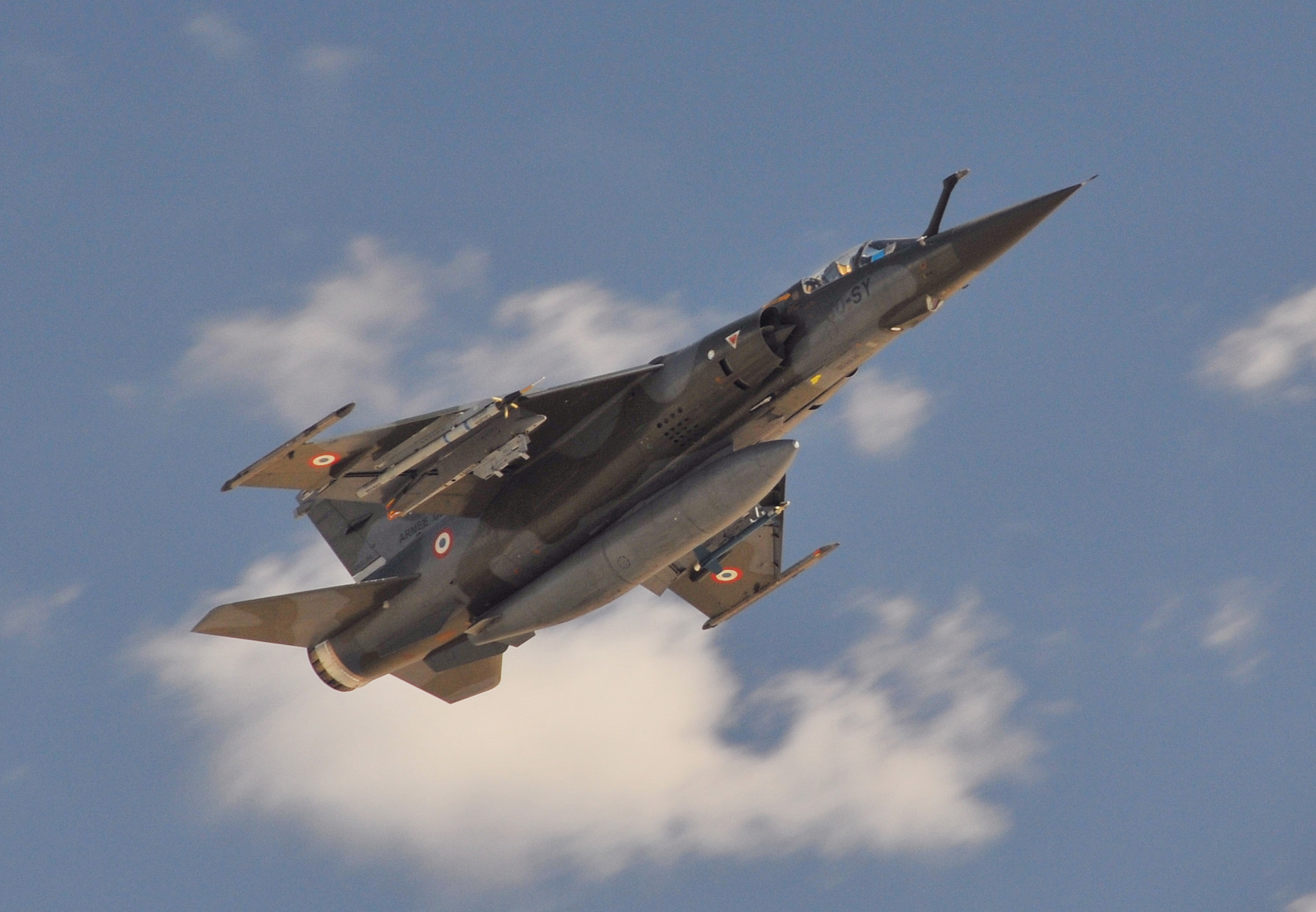 NELLIS AIR FORCE BASE, Nev. -- A French Air Force Mirage F1 takes off for a Green Flag mission from Nellis AFB. Green Flag exercises provide realistic close air support training for Air Force, sister services, and international fighter, bomber, and airborne command and control units. The exercises, which focus on air support for high desert armored warfare, facilitate joint operational training at the US Army National Training Center, Fort Irwin, Calif. Green Flag also trains Air Force and coalition ground combat units in the tactical control of airpower in the close battle.